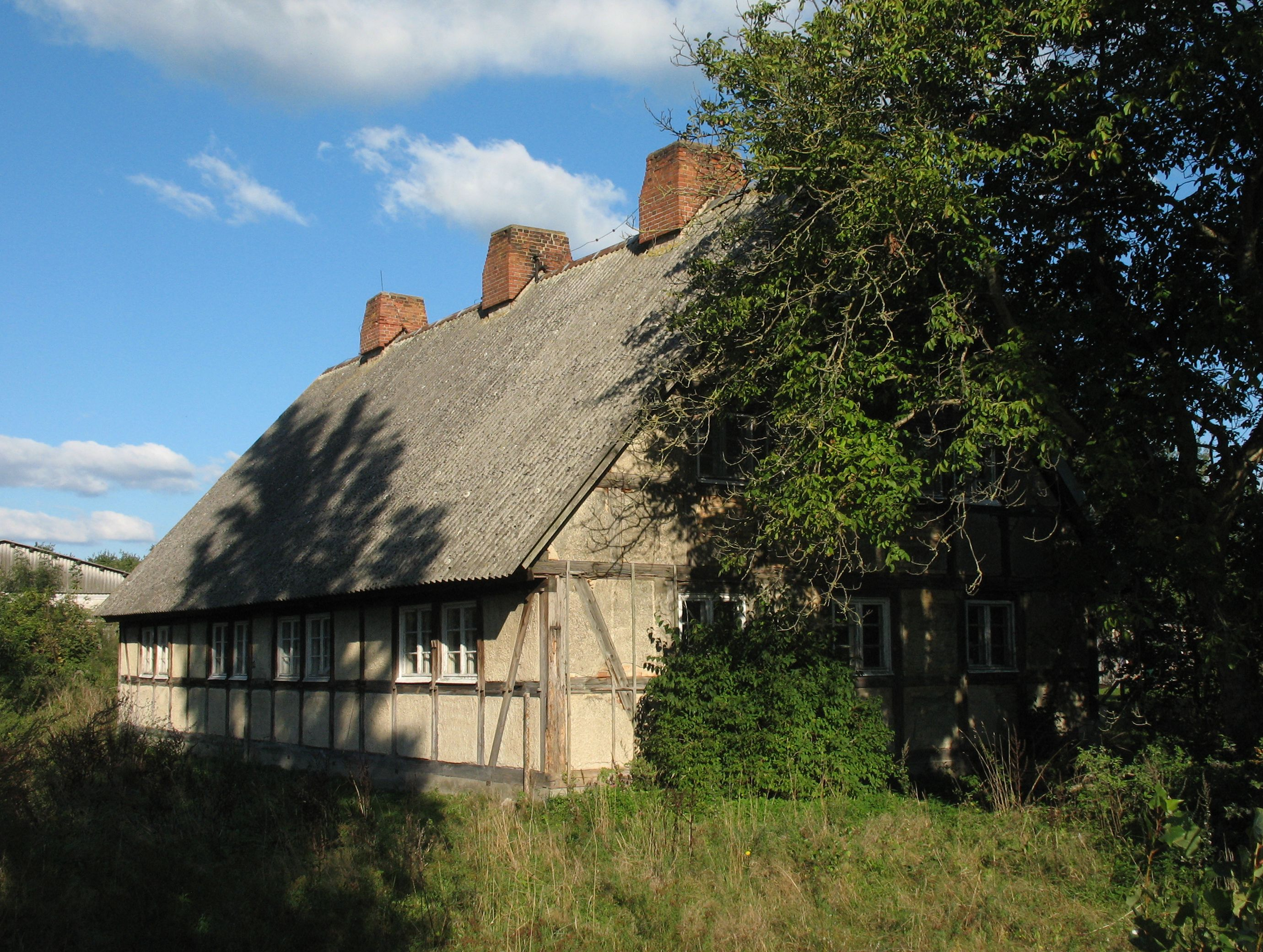 Building in Fehrbellin-Zietenhorst in Brandenburg, Germany